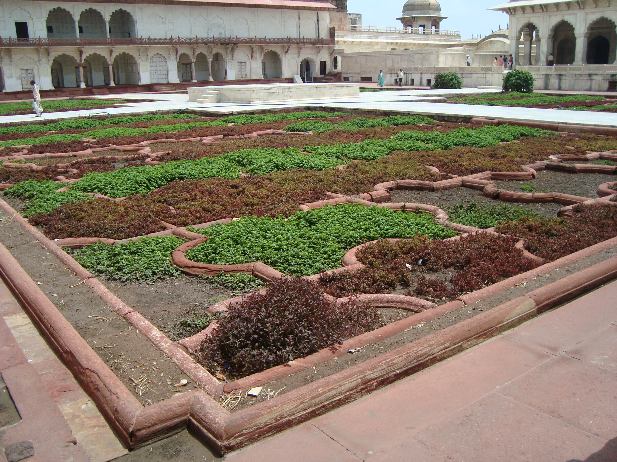 Ankuri bagh (Grape garden) of Agra Fort